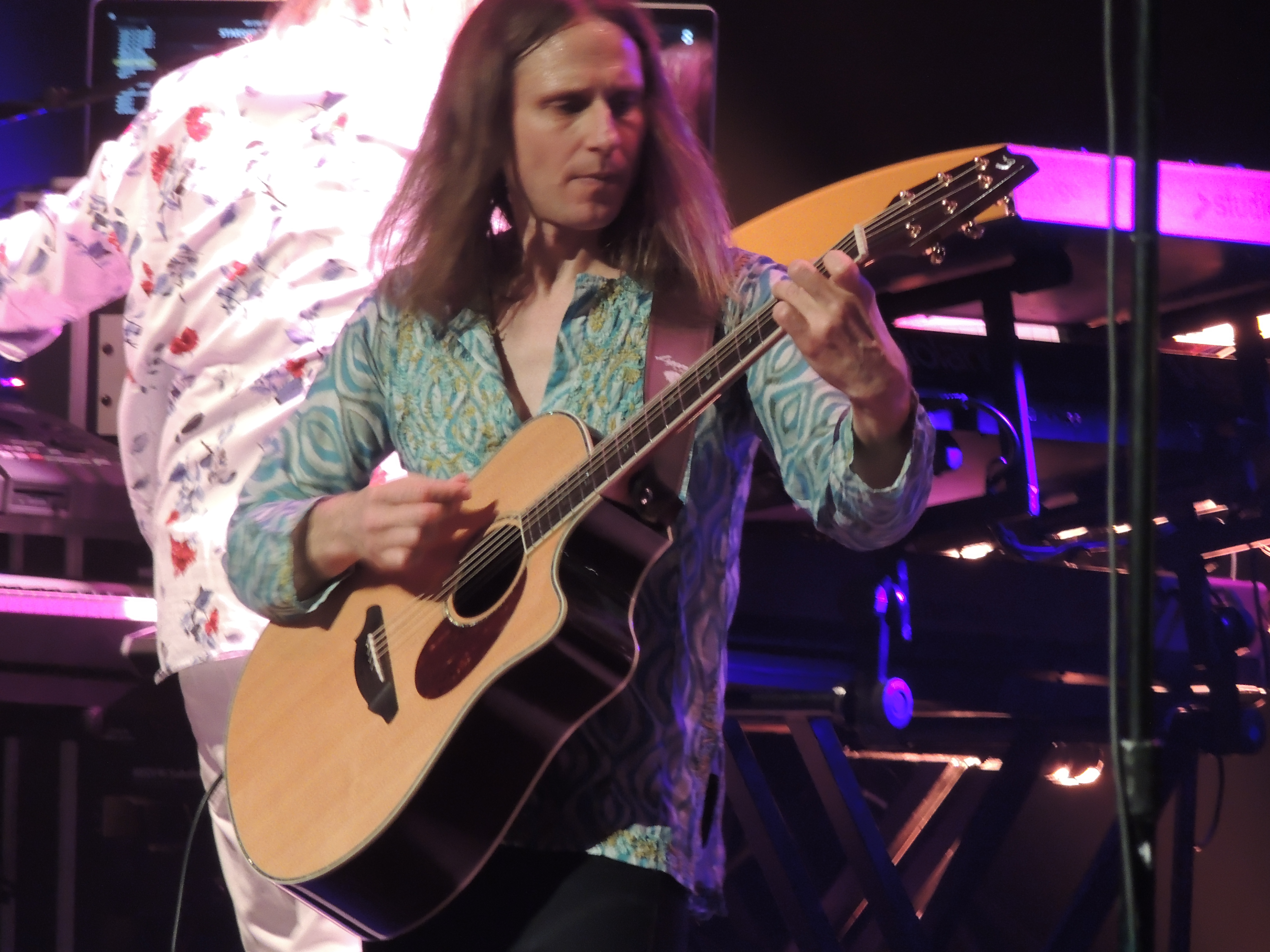 Jon Davison at the Beacon Theater on April 9, 2013.